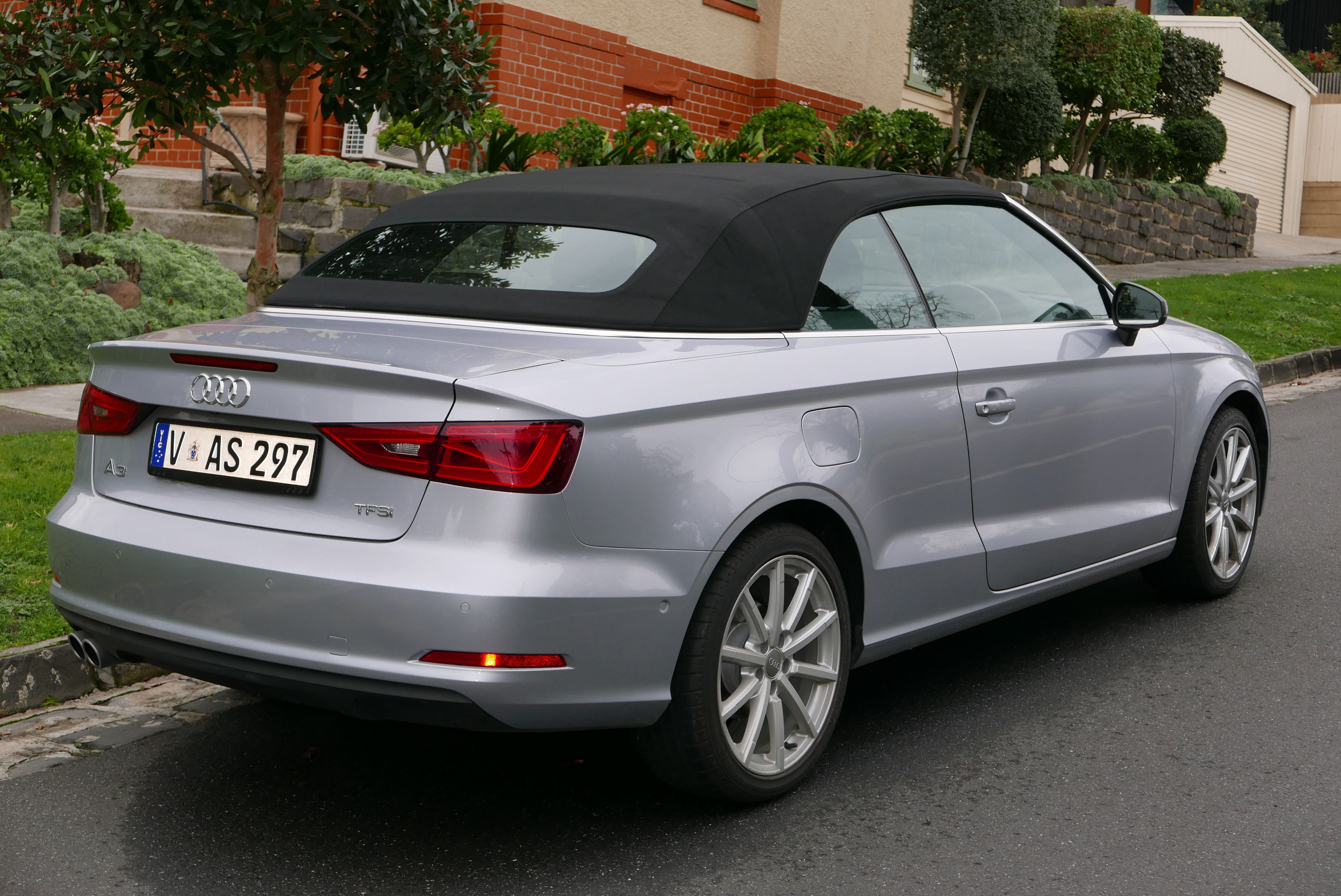 2014 Audi A3 (8V MY15) 1.8 TFSI Ambition convertible. Photographed in Kew, Victoria, Australia. Vehicle registration enquiry results Jurisdiction Victoria Registration VAS297 Chassis code WAUZZZ8V0F1029483 Engine code CJS072065 Compliance date 2014-09 Year of manufacture 2014